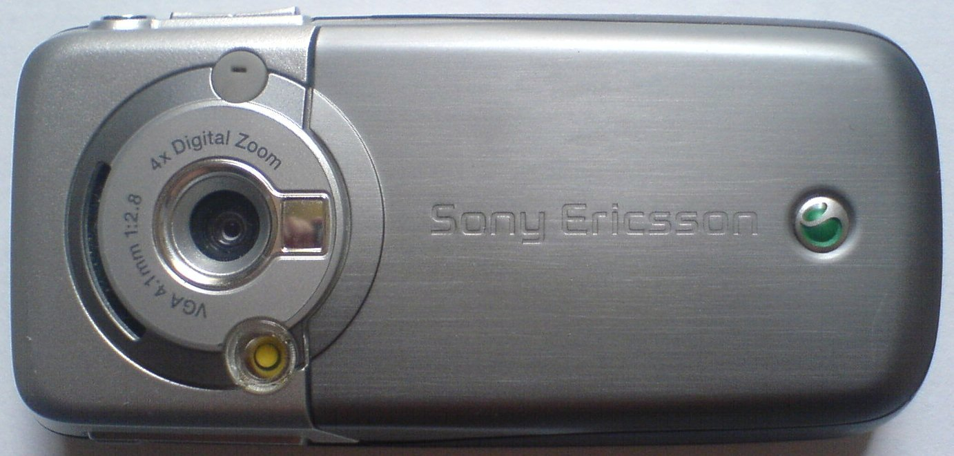 Image of the back of a Sony Ericsson K700i, taken by me (J Di) with a Sony Ericsson K750i.